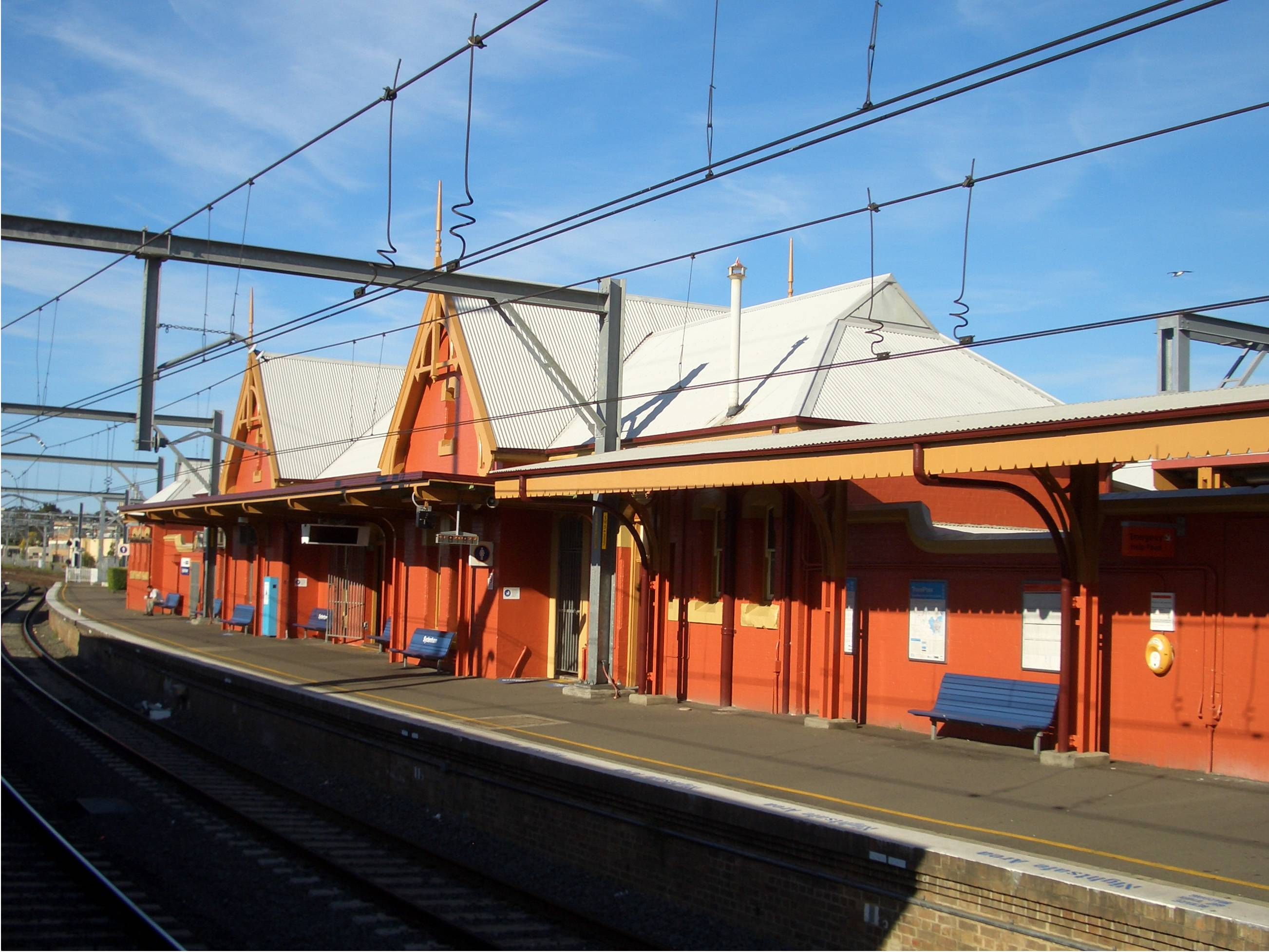 Sydenham railway station, Sydney